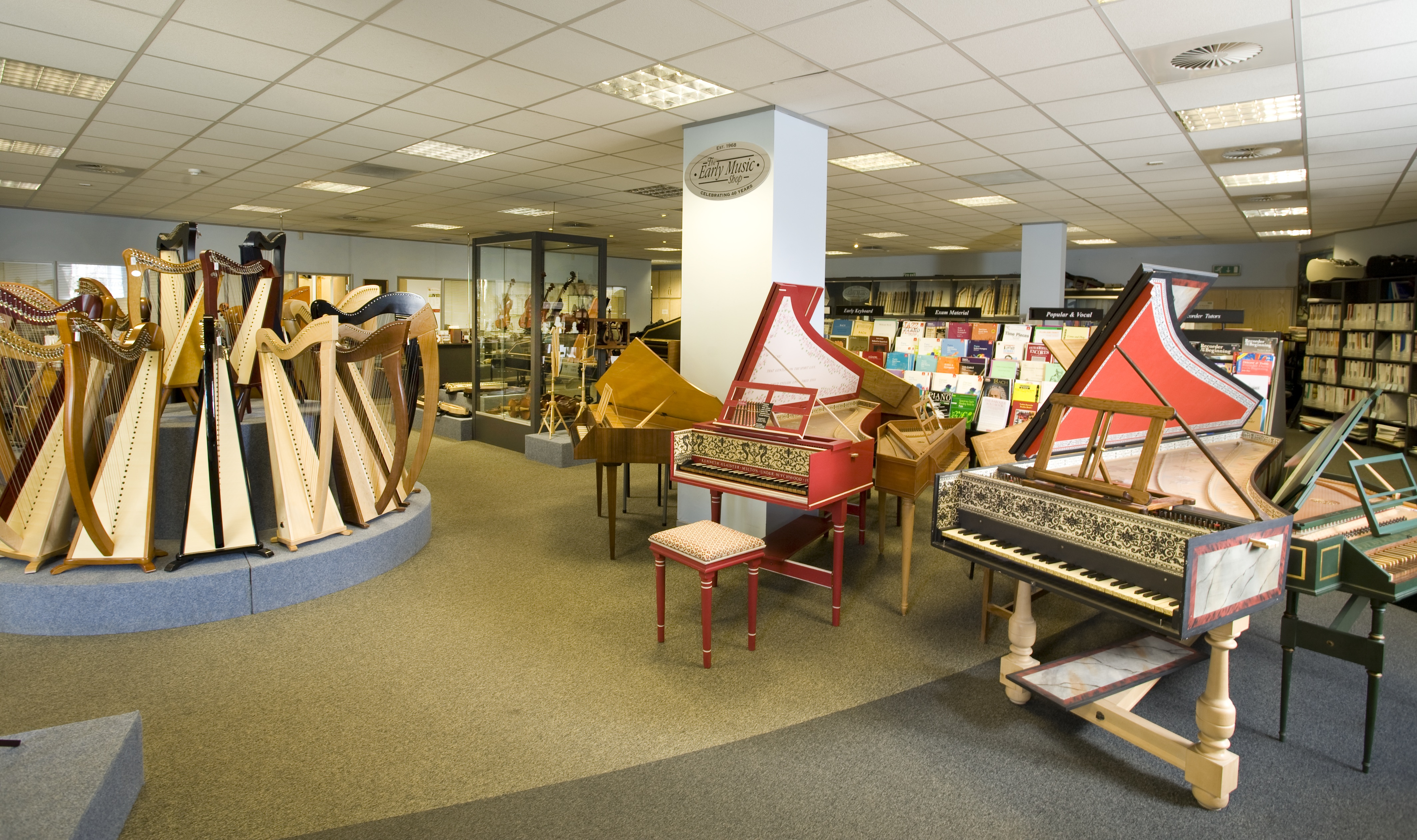 A selection of instruments on display at the showroom in Salts Mill.